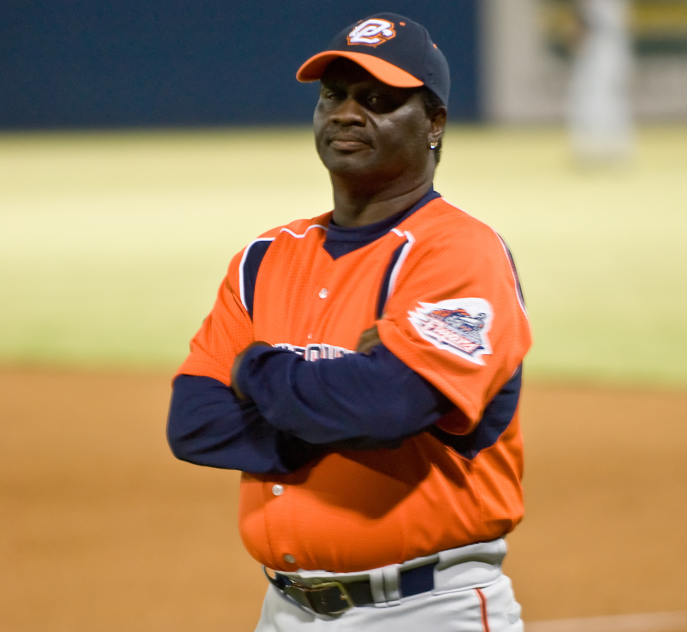 Jerry Turner serving as a coach for the Orange County Flyers in 2007